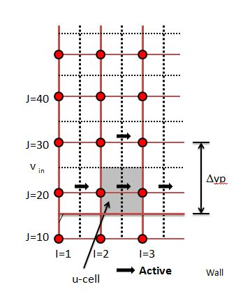 u-velocity cell at a physical boundary